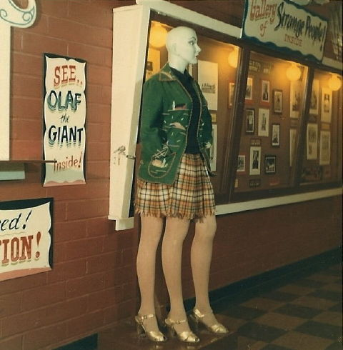 The three-legged lady stands outside Jones' Fantastic Museum in Seattle, USA during the period 1960-1980.